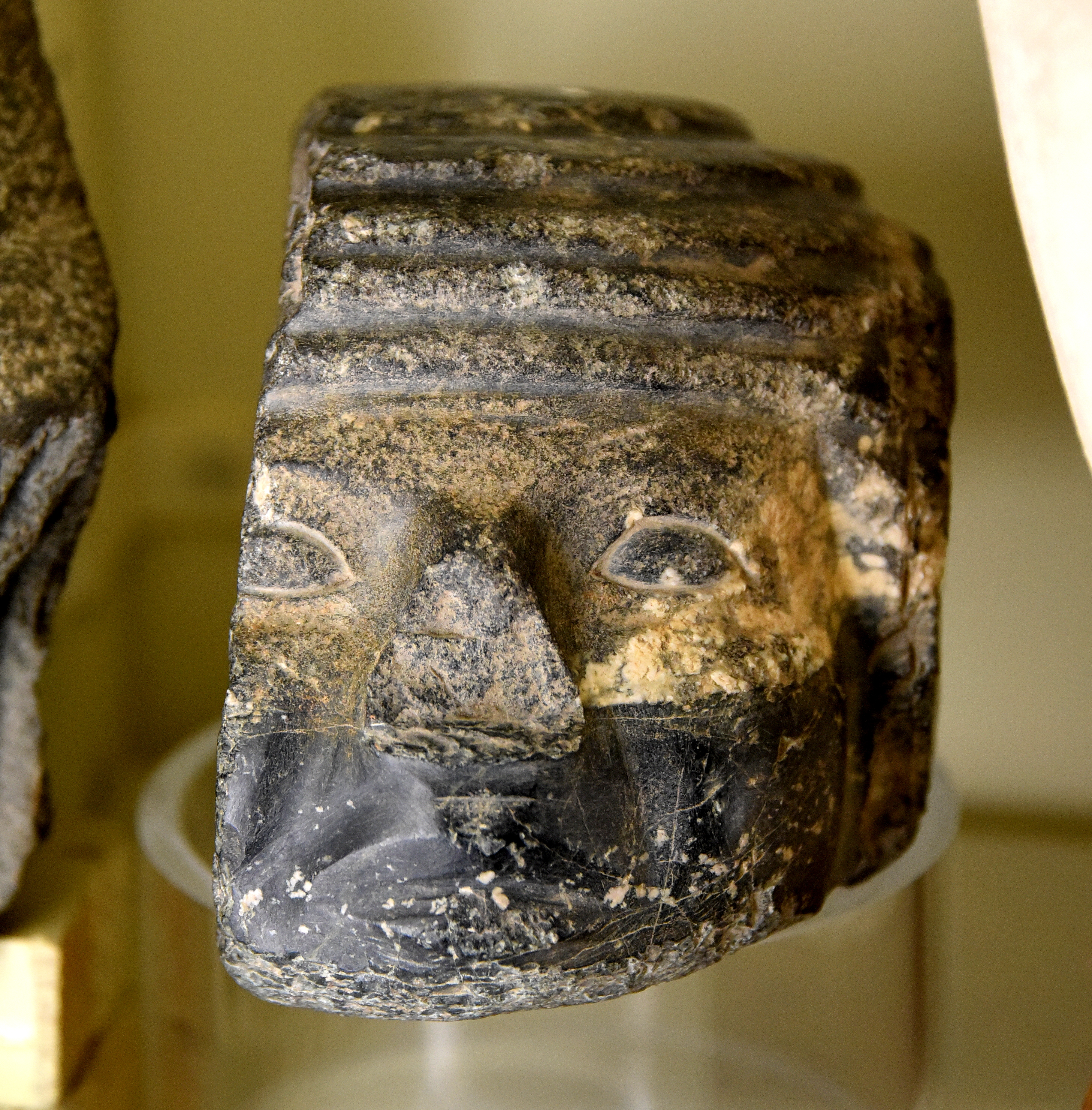 Damaged basalt head of a foreigner, from a door socket. Early Dynastic Period, 1st to 2nd Dynasties. From Thebes, Egypt. The Petrie Museum of Egyptian Archaeology, London. With thanks to the Petrie Museum of Egyptian Archaeology, UCL.